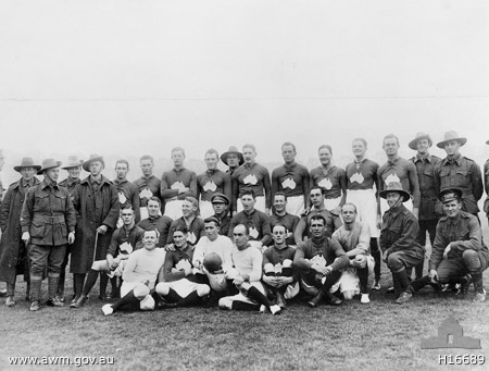 This image shows a photograph of the Third Australian Divisional Team, taken in 1916. Under Australian law, all photographs taken in Australia before 1955 are in the public domain. This image is in the public domain under both Australian copyright law and US copyright law.